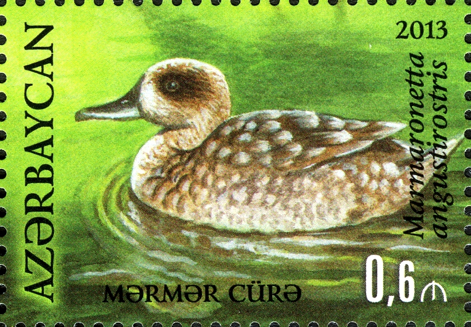 Hirkan National Park. N 1129 - 60 qapik. Marbled duck (Marmaronetta angustirostris)